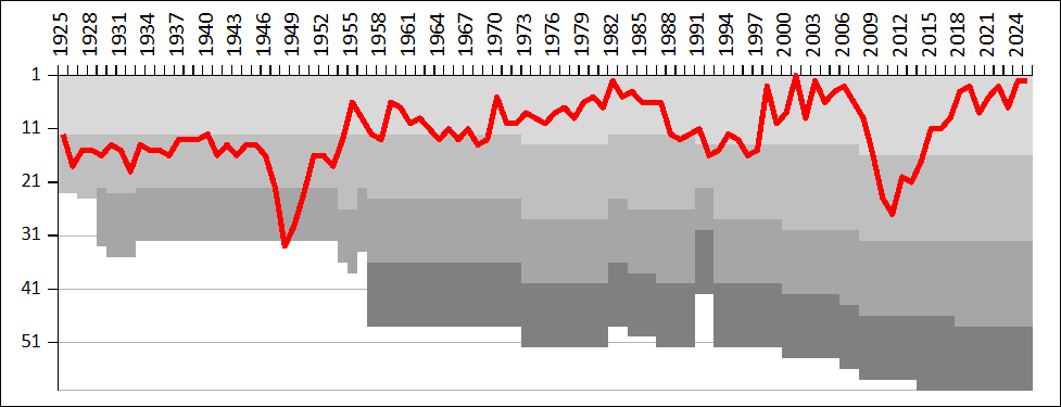 A chart showing the progress of Hammarby IF through the Swedish football league system. Horizontal black lines represent league divisions.